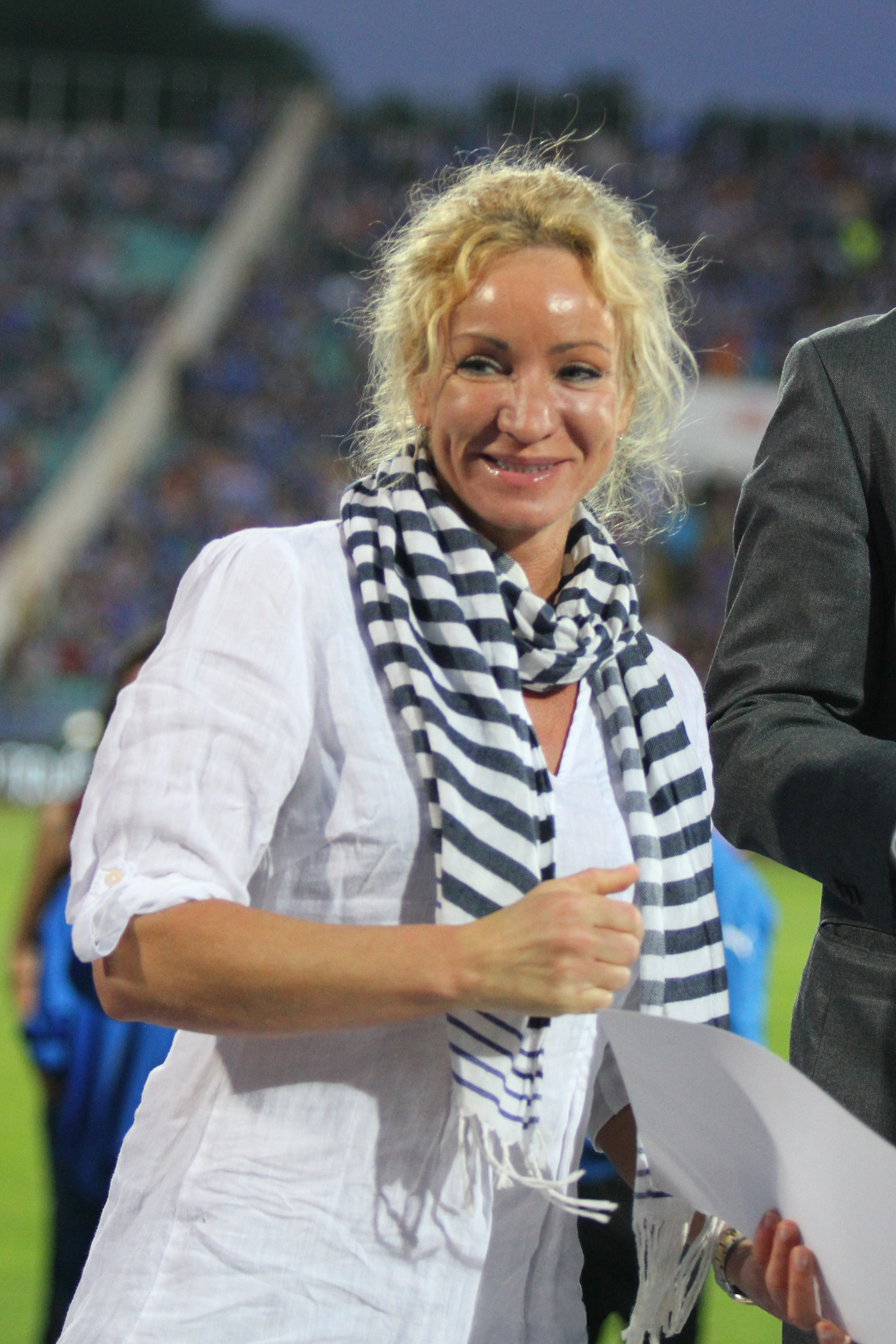 Maria Zdravkova Grozdeva (Bulgarian: Мария Здравкова Гроздева, née Григорова, Grigorova; born June 23, 1972) in Sofia is a Bulgarian sport shooter, concentrating on both 25 metre pistol and 10 metre air pistol.